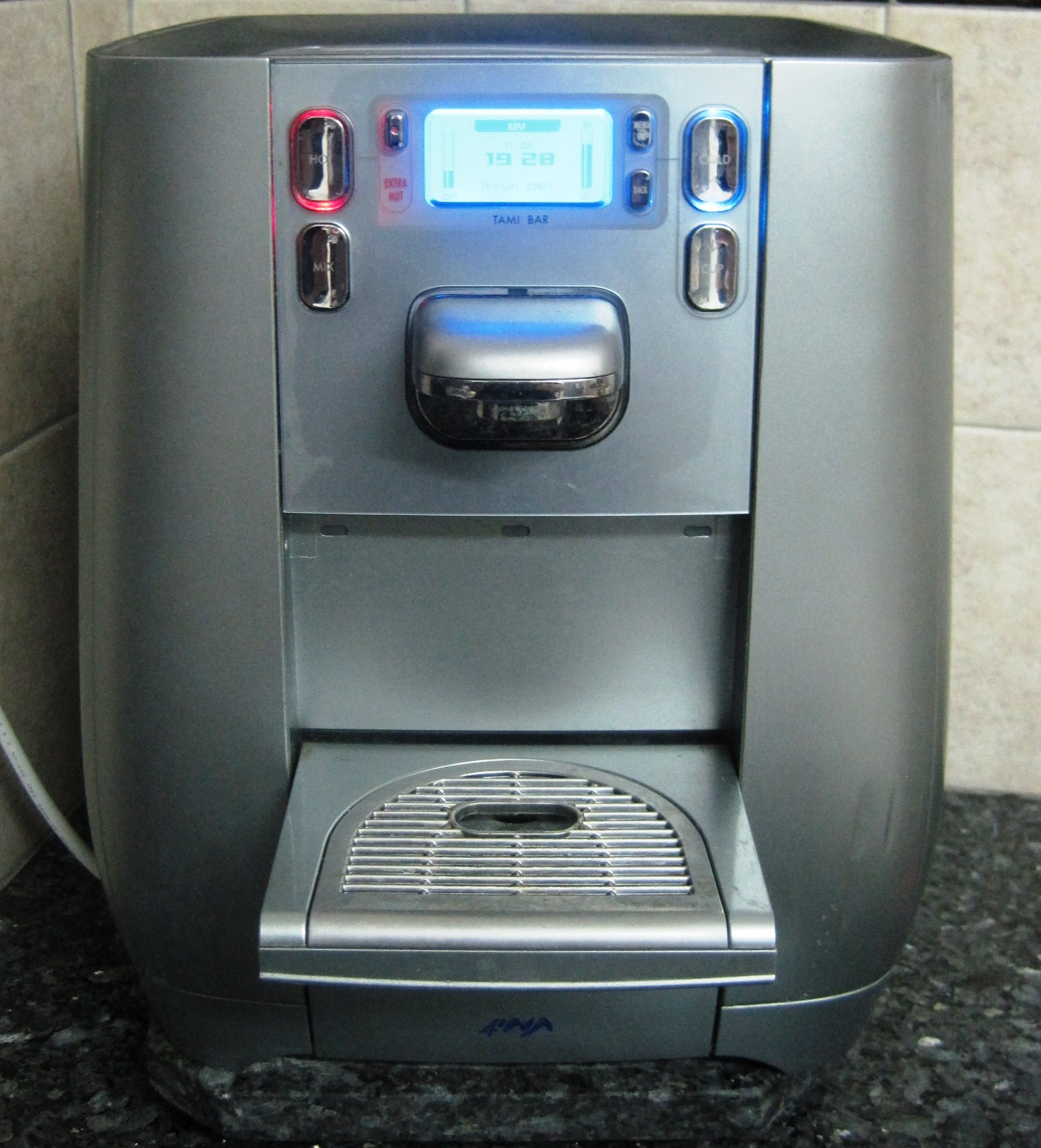 Water Cooler t4